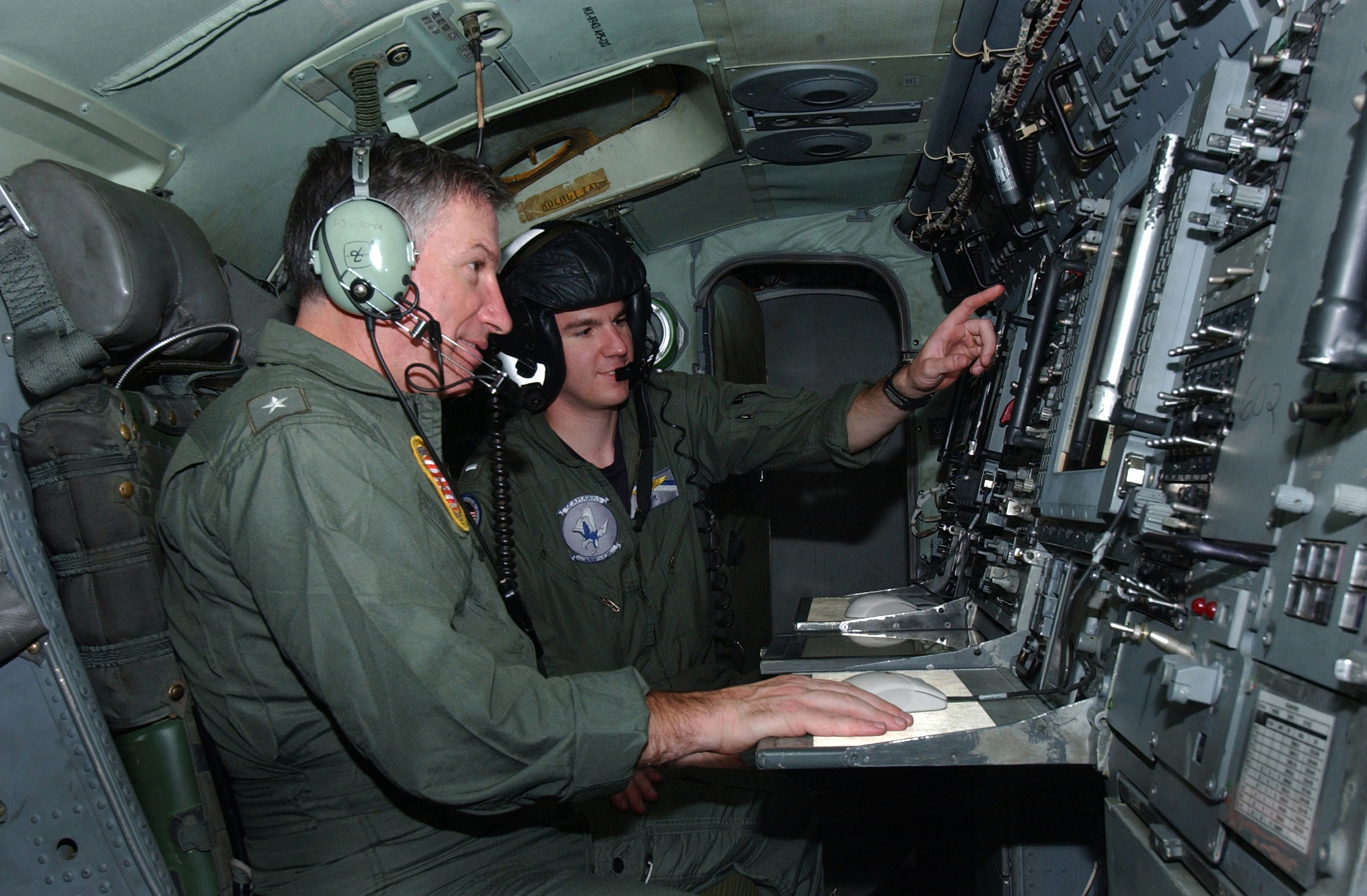 Atlantic Ocean (July 20, 2004) – Lt. j.g. Michael Greentree gives Commander, Cruiser Destroyer Group Two Rear Adm. Michael Tracy a tour of an E2-C Hawkeye assigned to the “Seahawks" of Carrier Airborne Early Warning Squadron One Two Six (VAW-126) aboard the Nimitz-class aircraft carrier USS Harry S. Truman (CVN 75). Truman recently completed Majestic Eagle 04, a multinational exercise conducted off the coast of Morocco. The exercise demonstrates the combined force capabilities and quick response times of the participating naval, air, undersea and surface warfare groups. Countries involved in the U.S.-led exercise include the United Kingdom, Morocco, France, Italy, Portugal, Spain, and Turkey. U.S. Navy photo by Photographer's Mate Airman Ryan T. O'Connor (RELEASED)